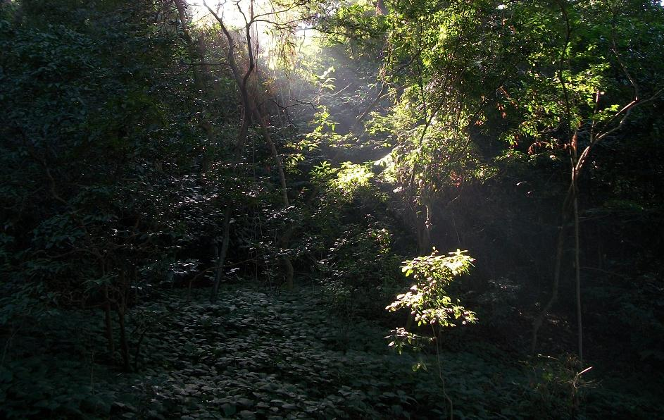 Coastal Climax Forest at Pigeon Valley